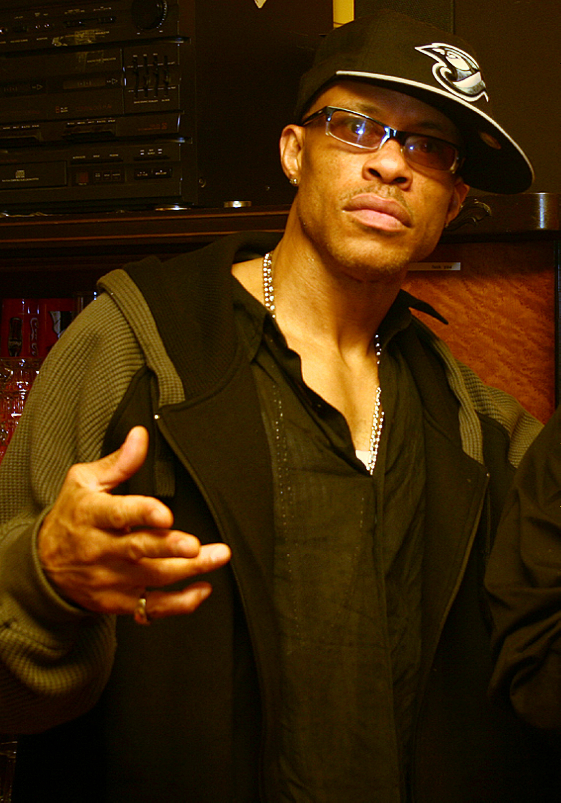 US-Rapper Guru of Jazzmatazz/Gang Starr fame in 2006